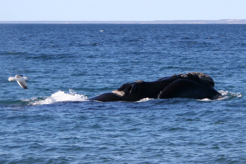 Southern right whale (Peninsula Valdés, Patagonia, Argentina)